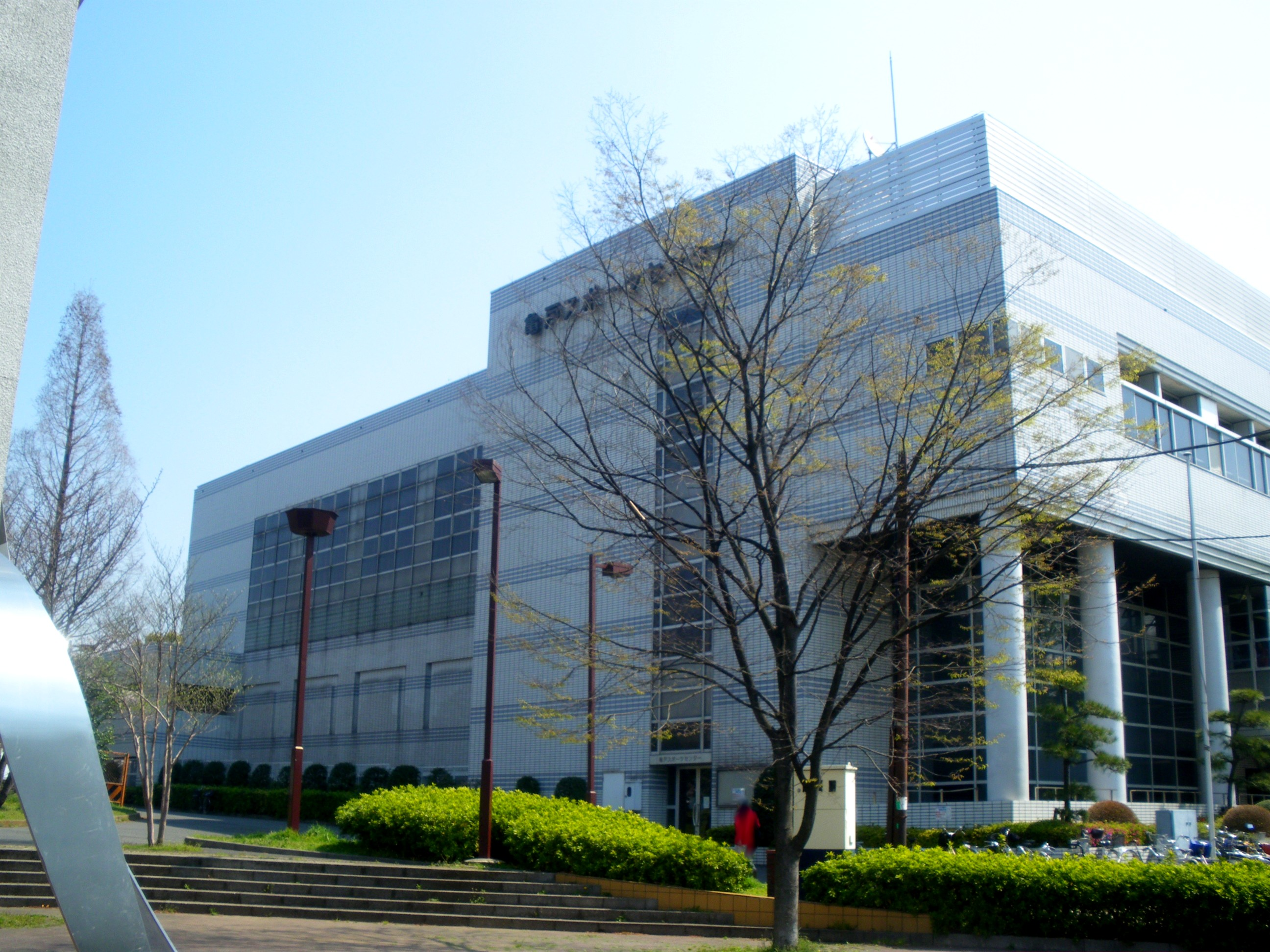 Kameido Sports Center(Koto,Tokyo)